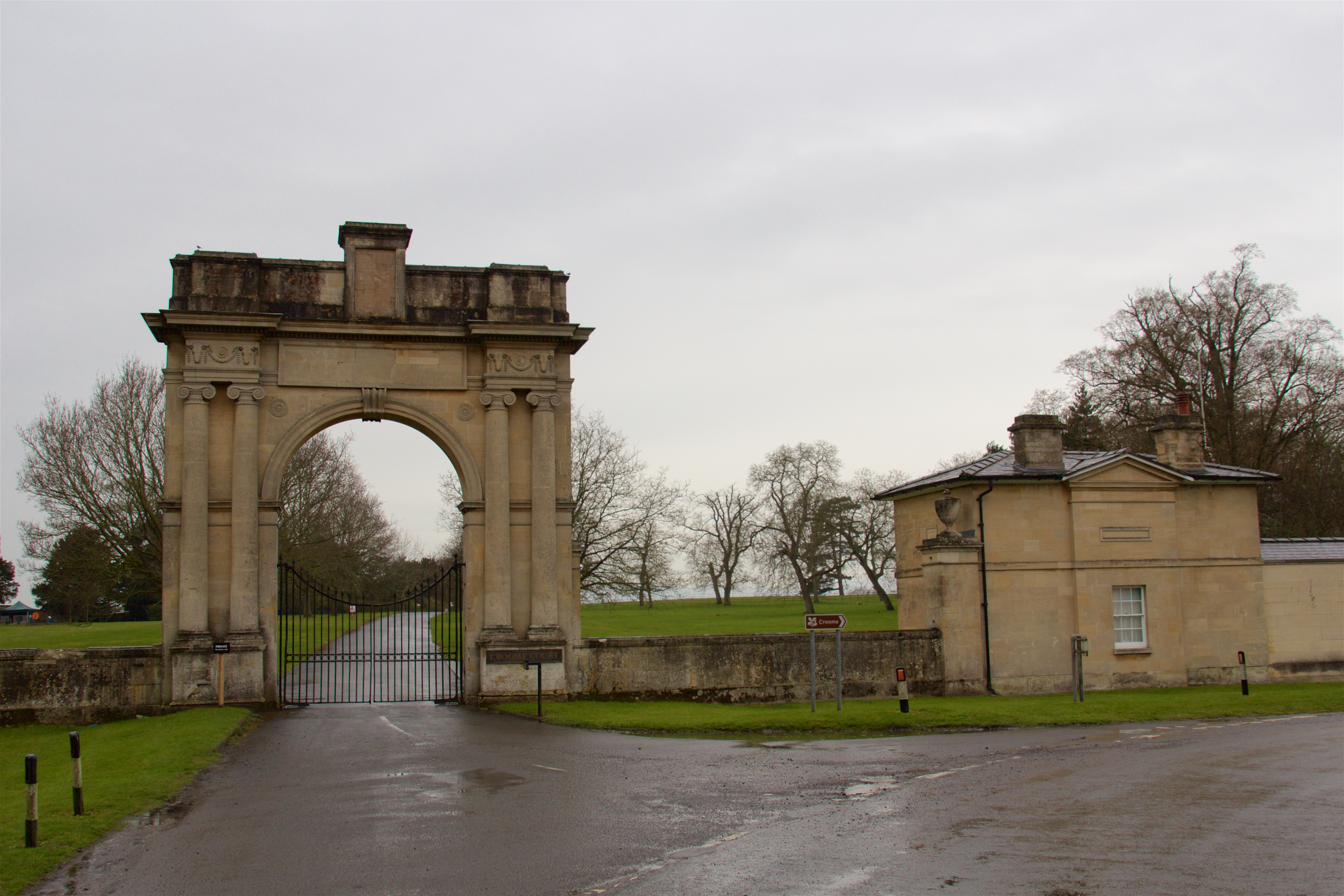 London Arch at Croome Court / Croome Park in 2016